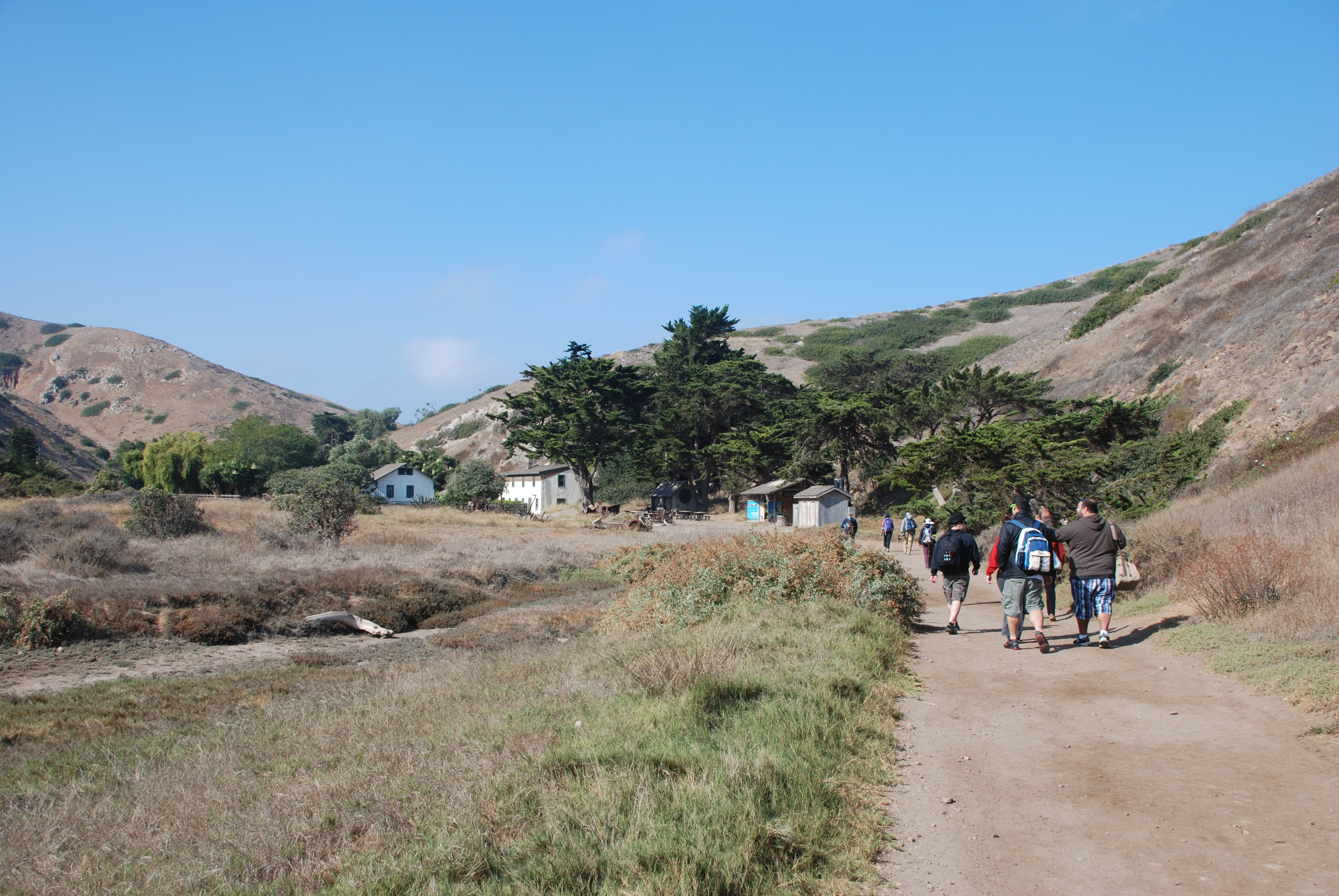 Tourists at the Scorpion Ranch, Santa Cruz Island, California, USA